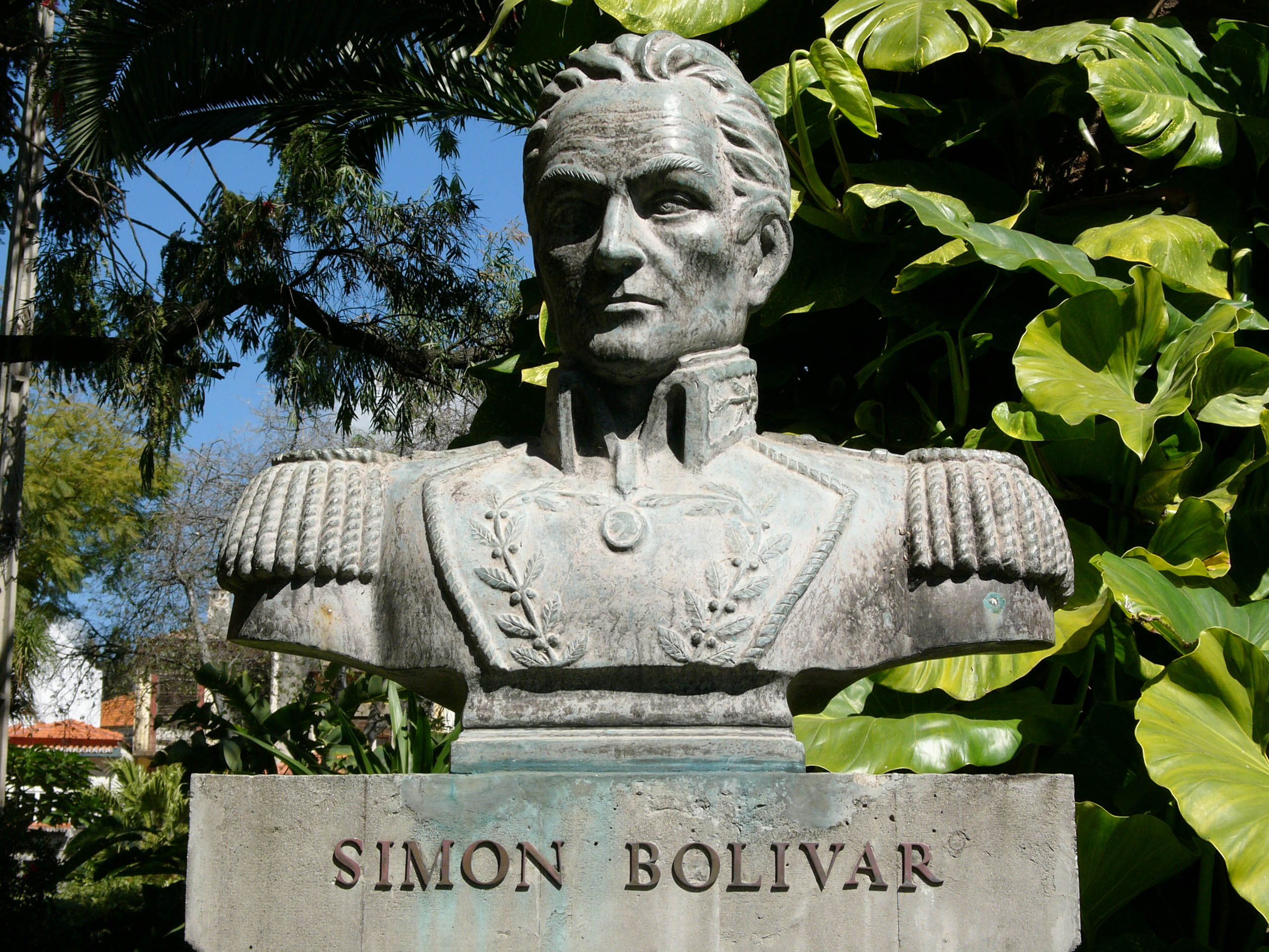 Bust of Simon Bolivar in municipal park of Funchal, Madeira